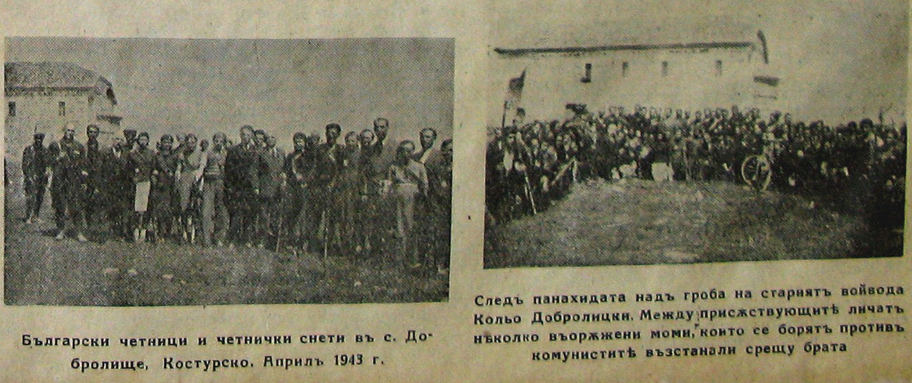 Dobrolishta 1943